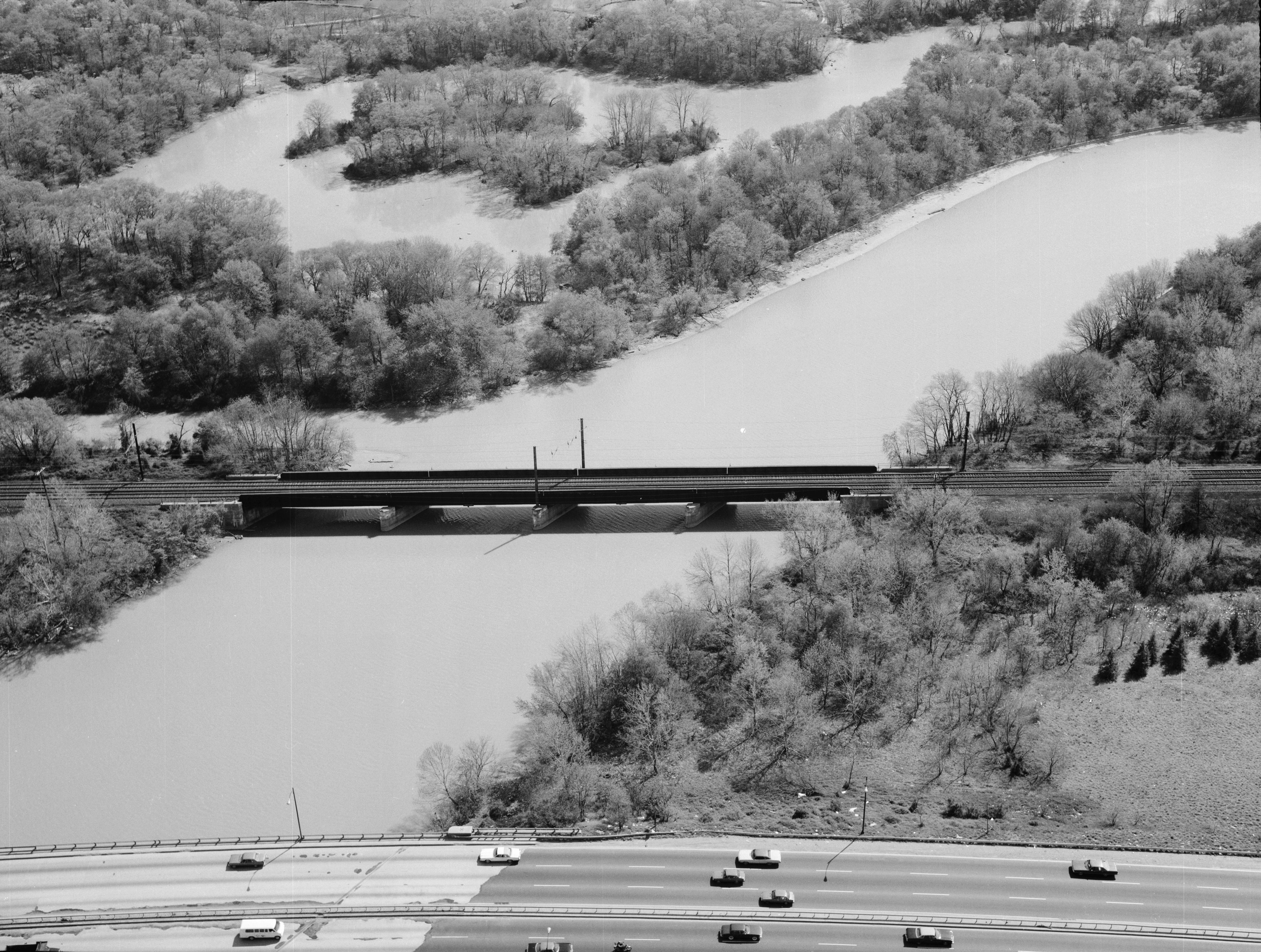 Image of Amtrak Anacostia River Bridge in Washington, D.C.. View looking south. The New York Avenue Bridge is seen in the foreground.